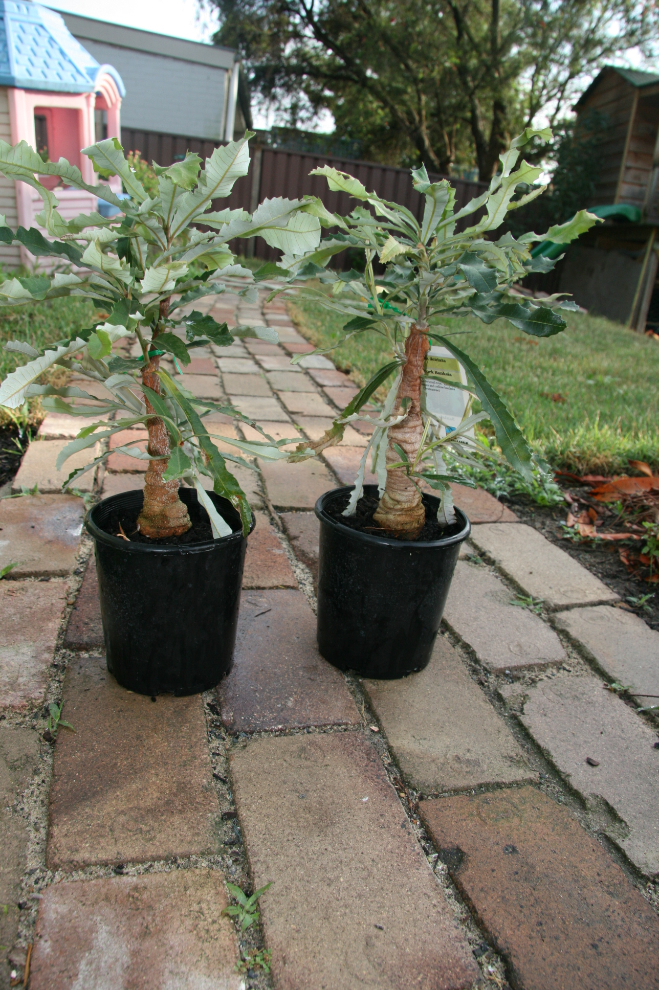 Banksia dentata seedlings - note swollen trunks.